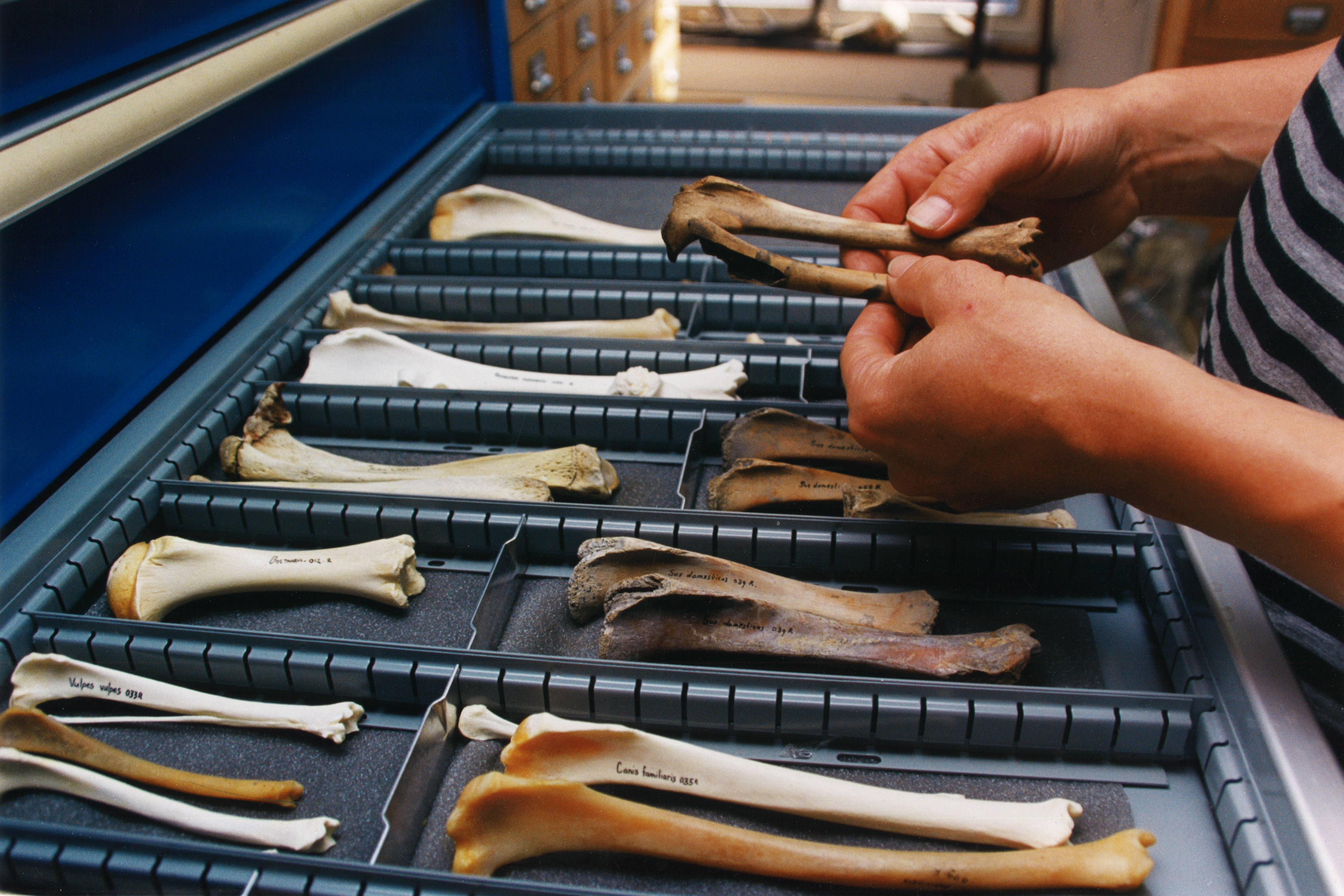 Drawer Tibia (shinbones of several animal species for determination) of a cabinet in the Reference Laboratory Archaeozoology, Rijksdienst voor het Cultureel Erfgoed (Dutch Heritage Agency)